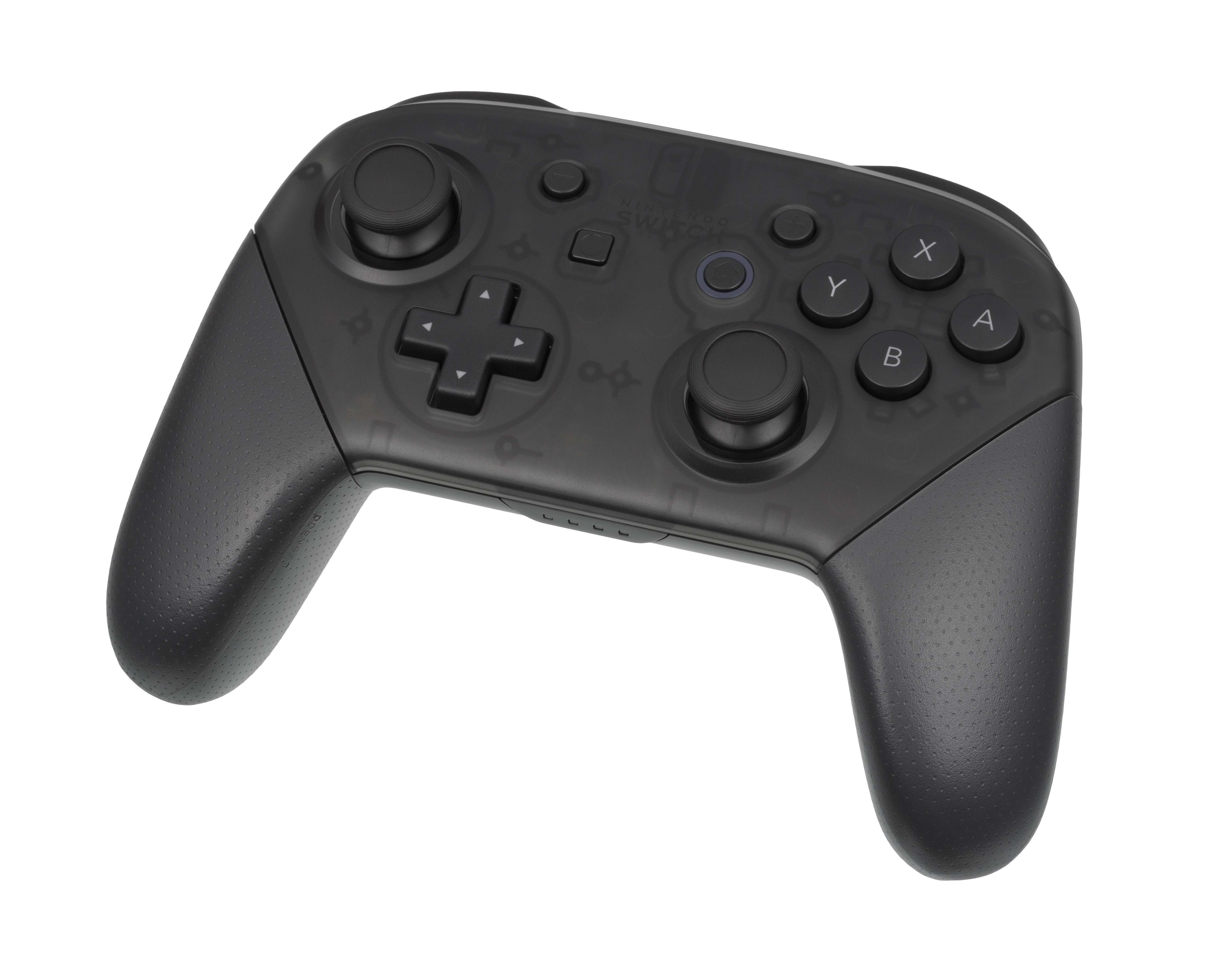 The Pro Controller for the Nintendo Switch, a hybrid portable/home console released by Nintendo in 2017. The Pro Controller is an optional accessory that offers a more traditional gamepad compared to the Joy-Con that are included with the Switch.